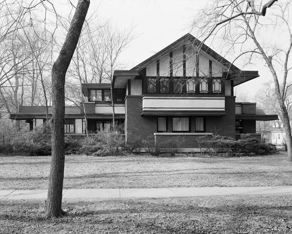 Frederick B. Carter, Jr. House — in Evanston, Illinois. Designed in the Prairie School style, by Walter Burley Griffin in 1910. On the National Register of Historic Places in Evanston. 1967 image: HABS—Historic American Buildings Survey of Illinois.